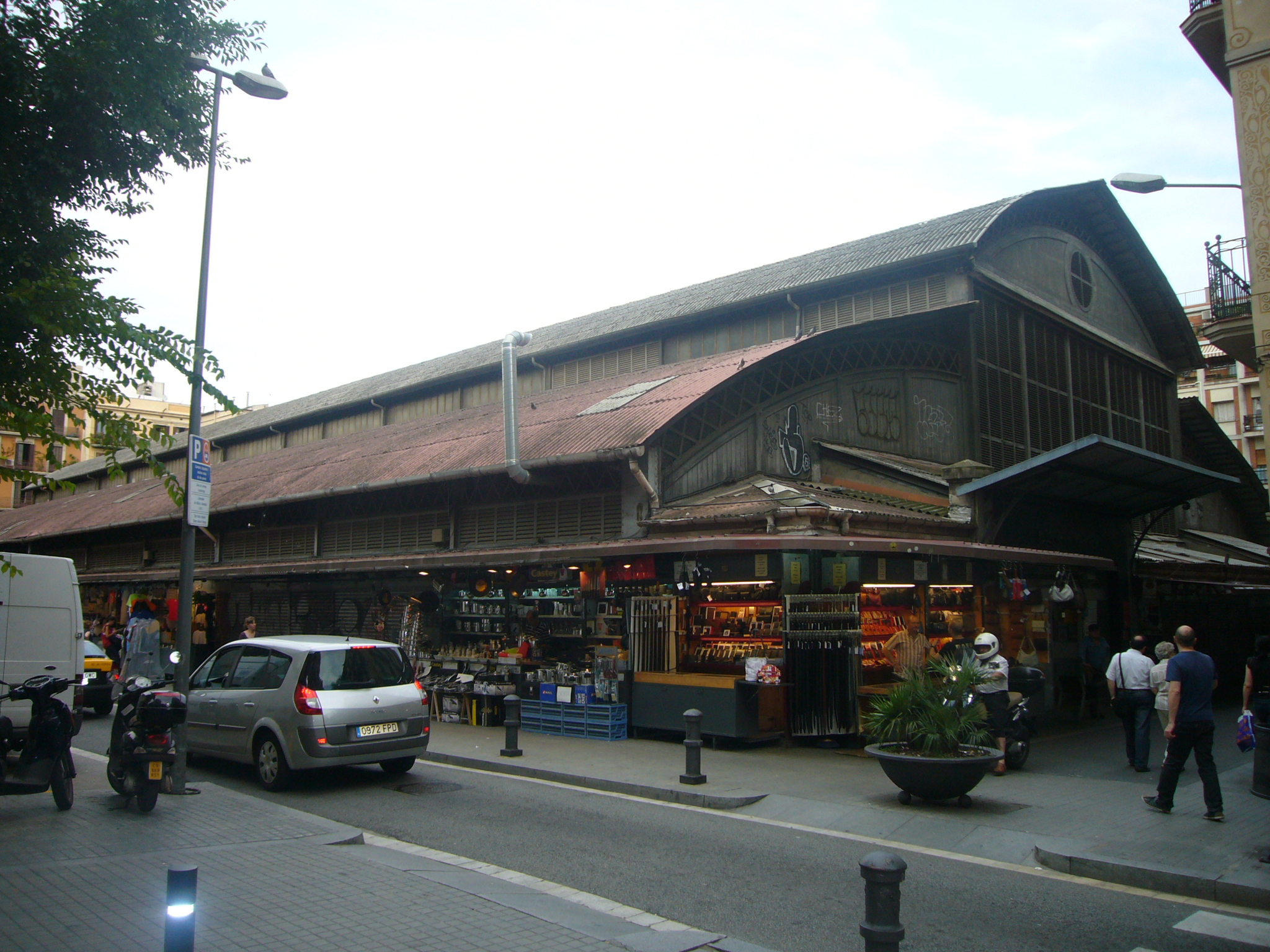 Abaceria Central Market, Gràcia, Barcelona